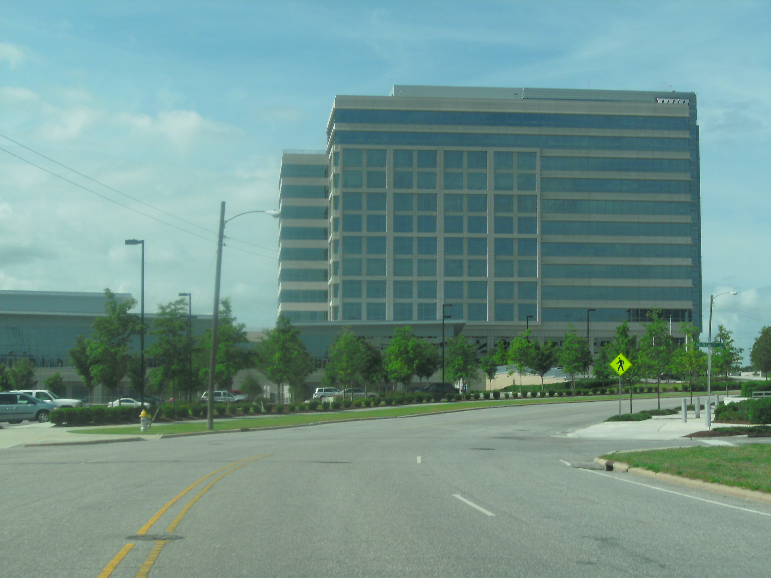 PPD Tower Wilmington